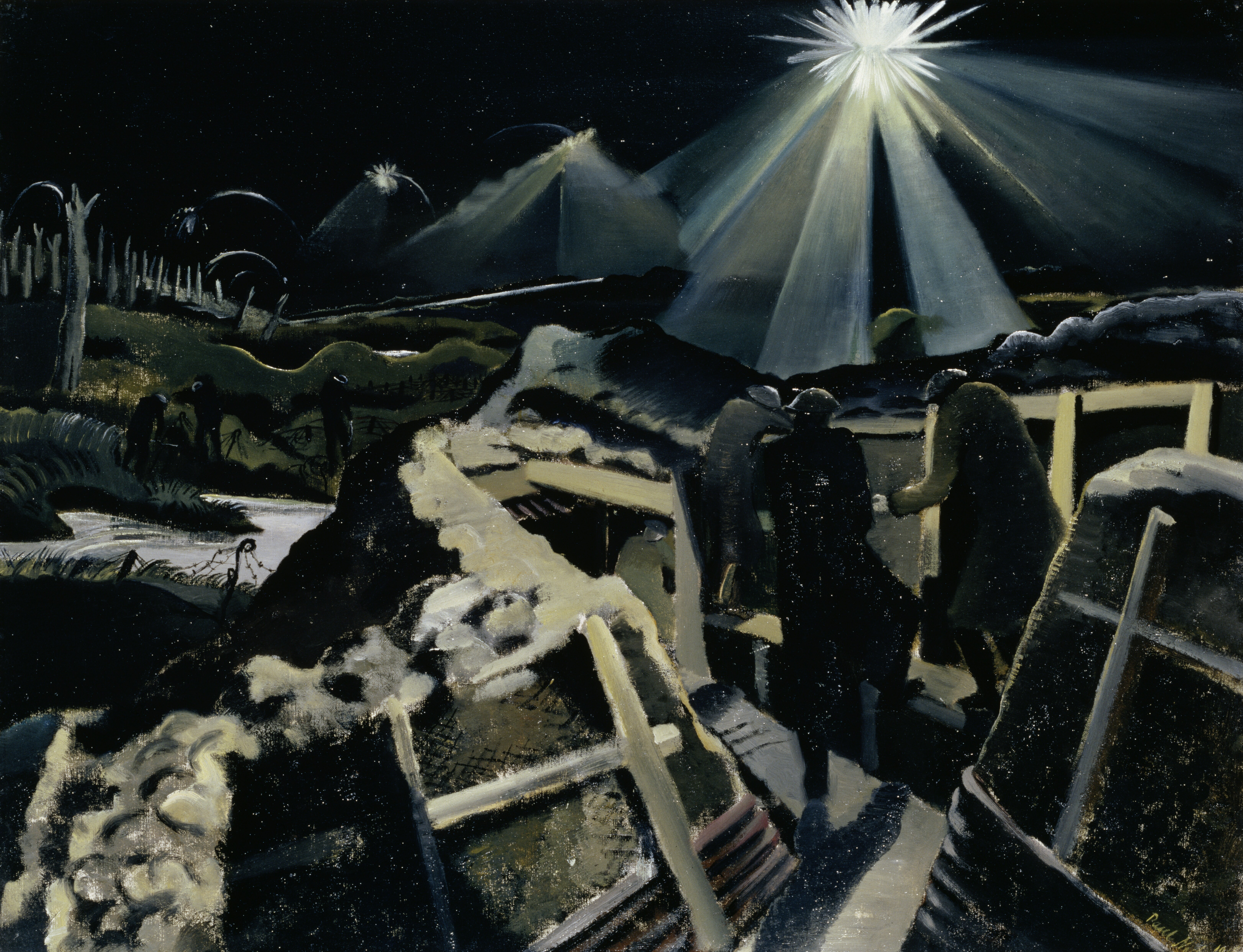 The Ypres Salient at Night image: A night scene showing three soldiers on the fire step of a trench surprised by a brilliant star shell lighting up the view over the battlefield. On the left there is a flooded shell-hole, beyond which stand three other soldiers, overlooked by a woodland of tree stumps.